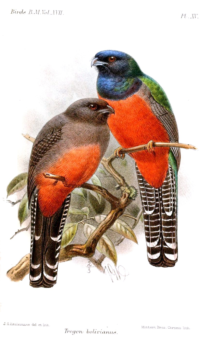 Trogon bolivianus = Trogon curucui, Blue-crowned Trogon